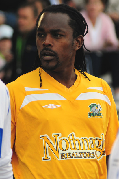 Photo of soccer player, Brent Sancho at Burnaby's Swangard Stadium. Wilson Wong photo.